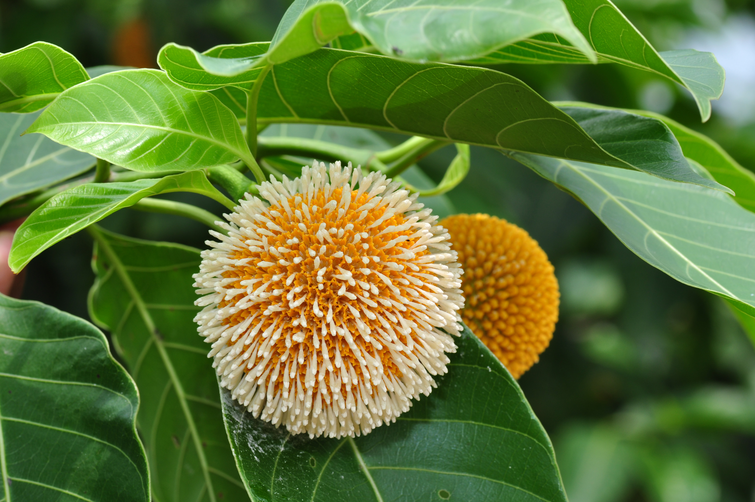 Kadam Flower